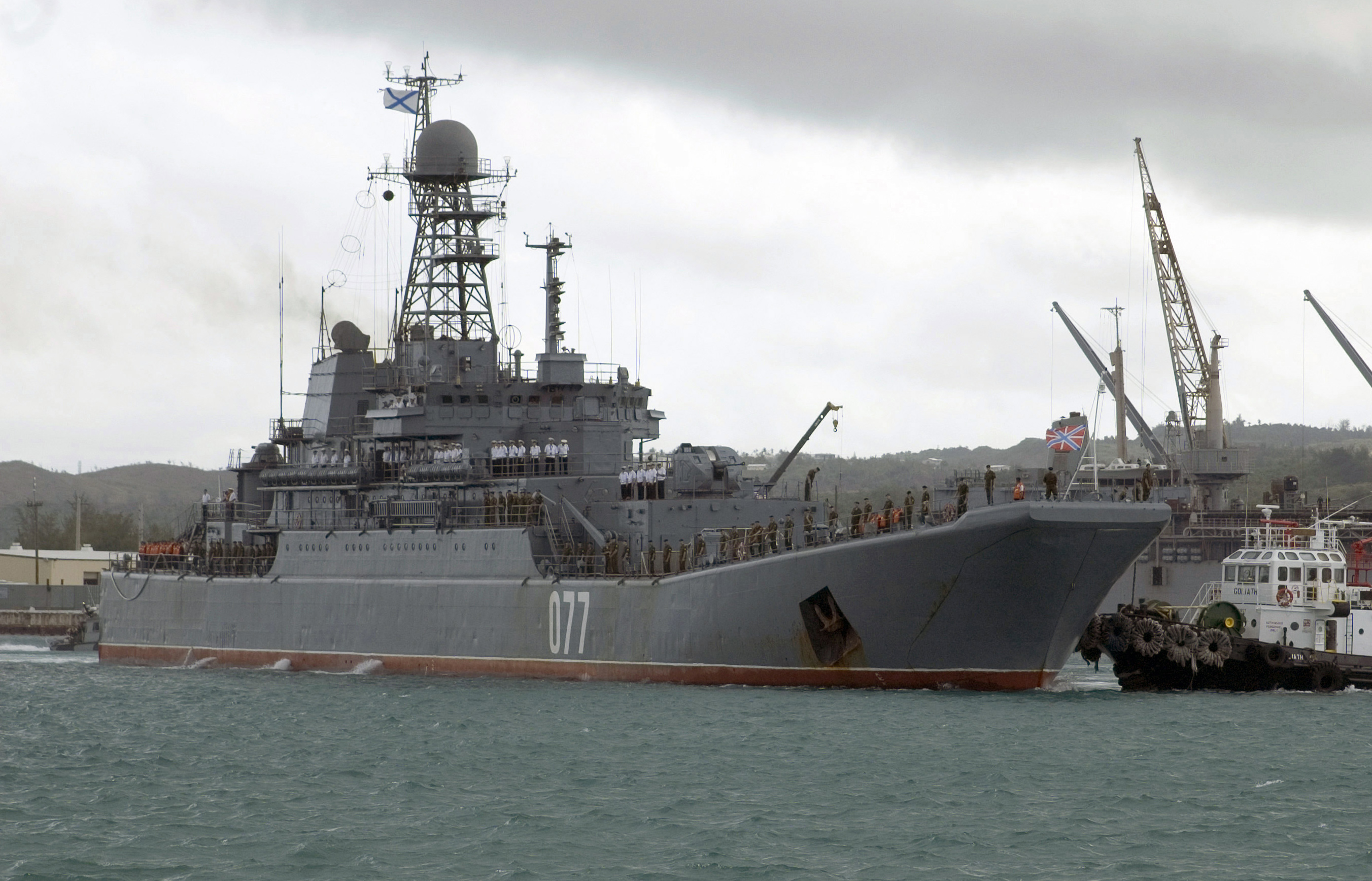 The Russian Federated Navy (RFN) Tank Landing Ship Project 775M Peresvet (ex-BDK-11) (RFN 077) moors at the Apra Harbor, Guam (GU), while participating in Passing Exercise (PASSEX) 2006, off the coast of Guam. PASSEX is an exercise designed to increase interoperability between the Location: APRA HARBOR, GUAM (GU) UNITED STATES OF AMERICA (USA)